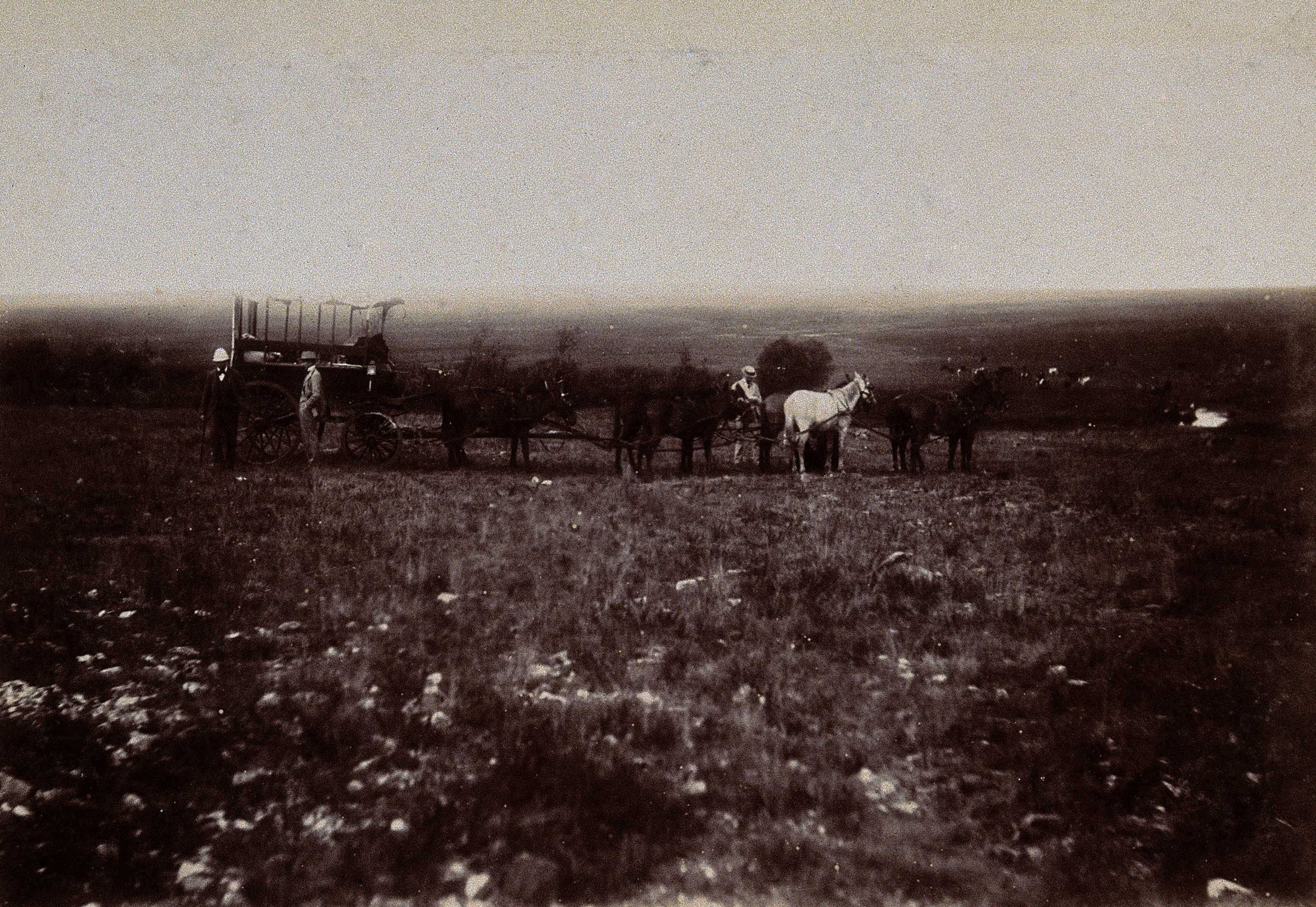 South Africa: English tourists at the battlefield of Doornkop. 1896. Iconographic Collections